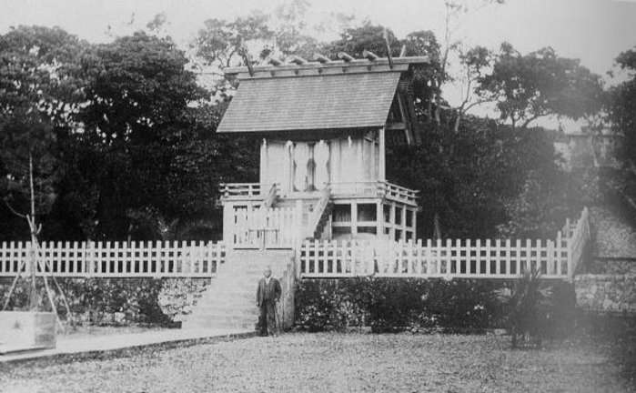 Yamazaki Masatada at Okinawa Shrine, Shuri, Okinawa, Japan